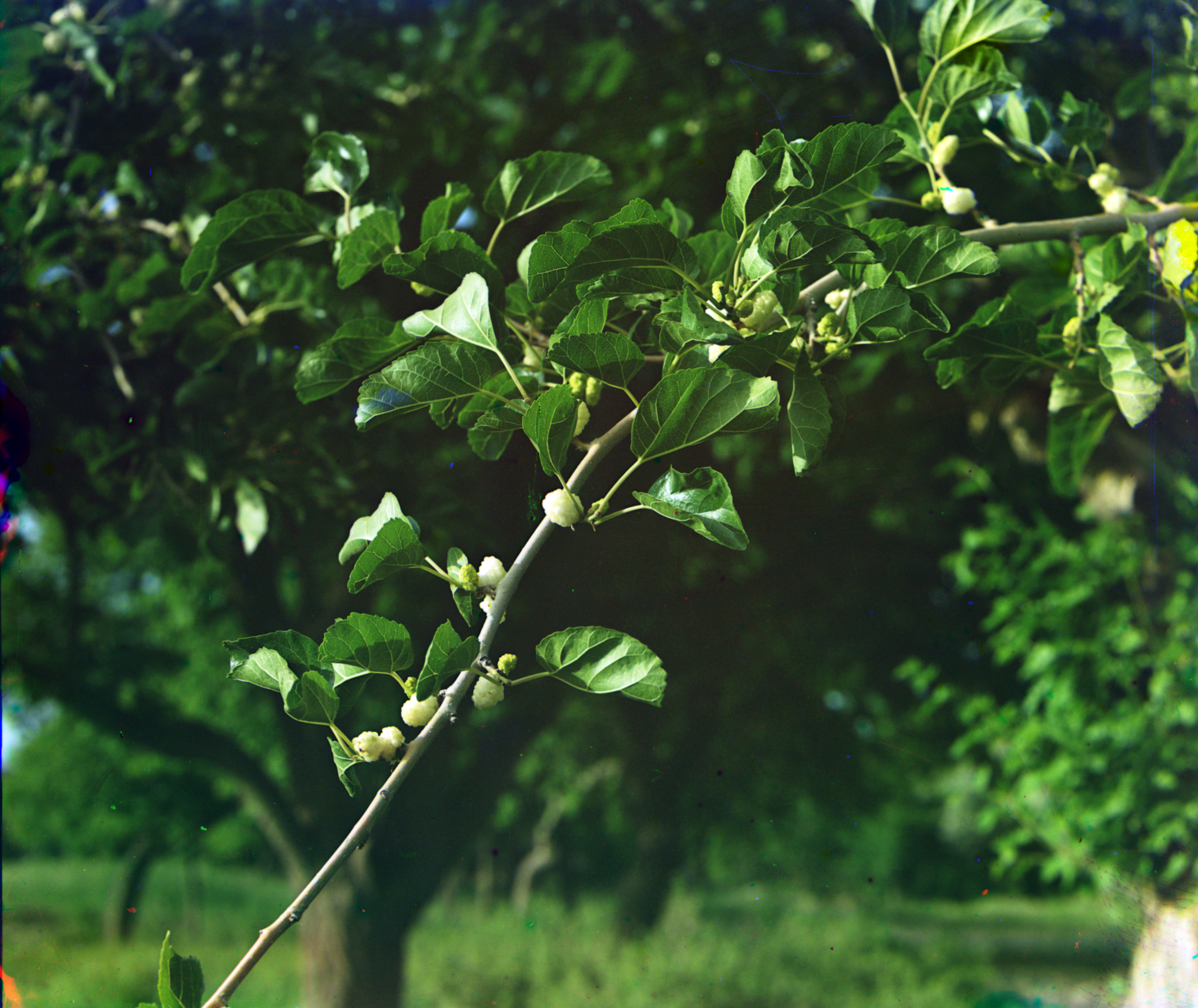 Mulberry branch